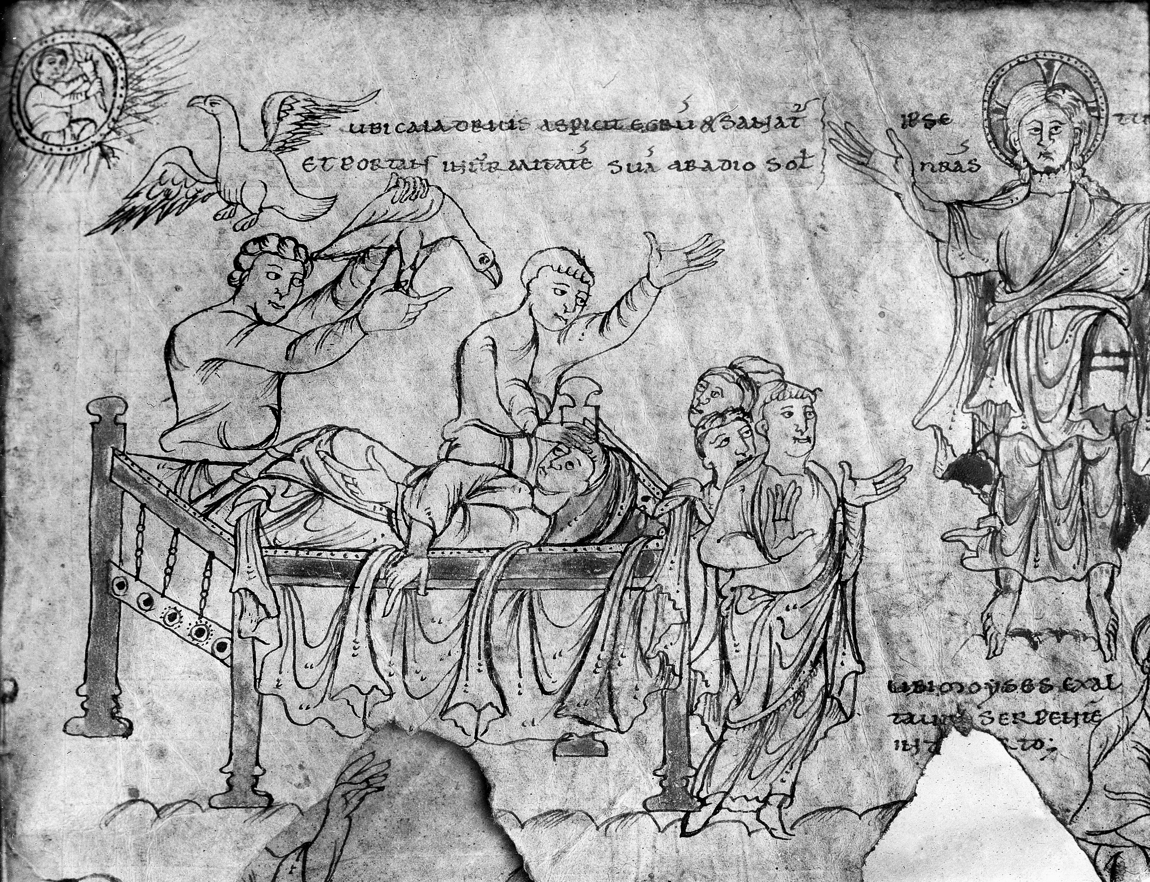 Bird of ill omen used as an oracle. Illustration from a manuscript. Archives & Manuscripts Keywords: Witchcraft